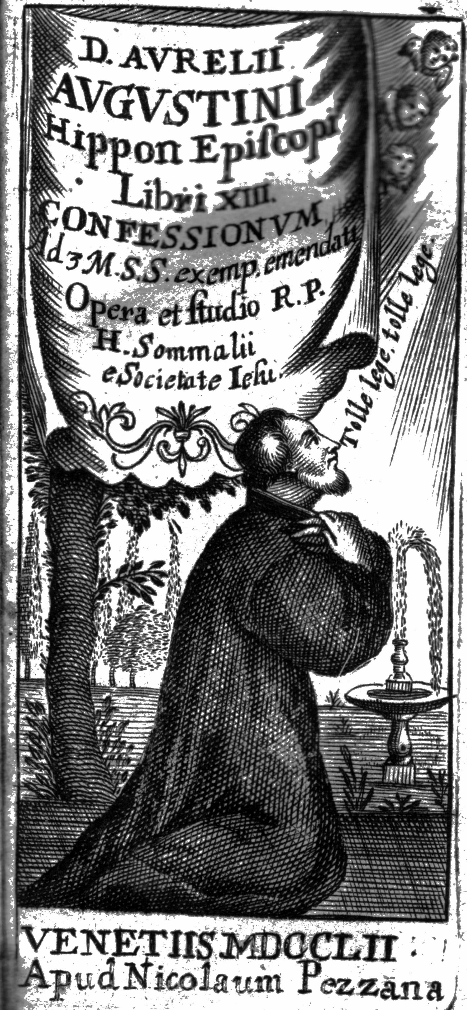 First page - picture of Confessiones (Saint Augustin)